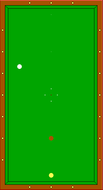 Starting table layout for Five-pin billiards also known as Italian billiards.